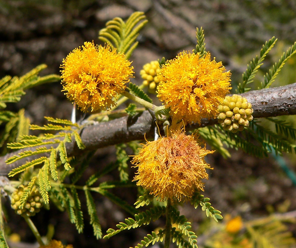 Acacia caven at the University of California Botanical Garden, Berkeley, California